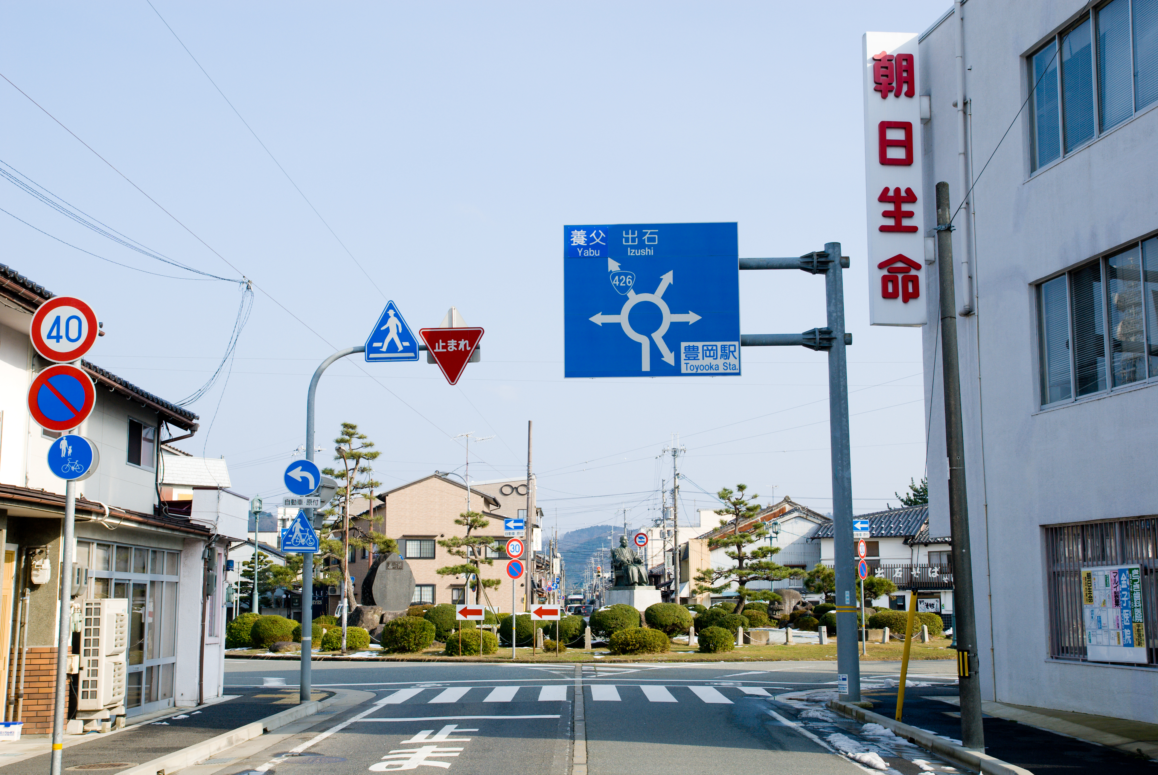 This intersection is a roundabout in Toyooka Hyogo.